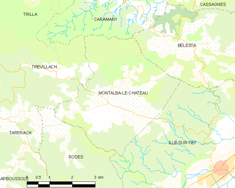 Map of French municipality